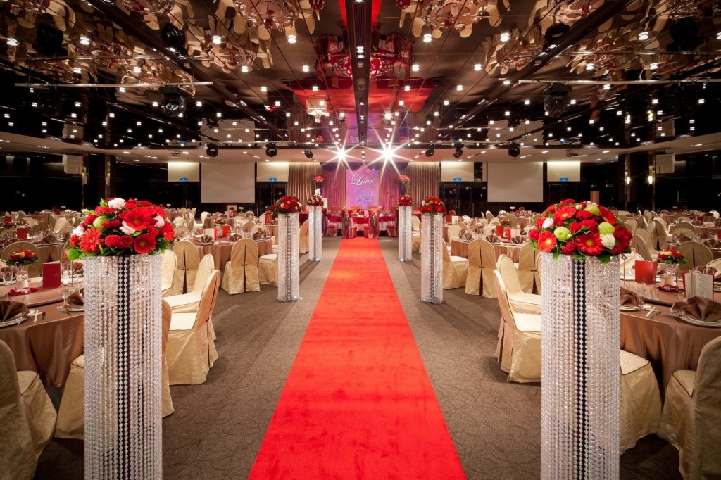 TICC Banquet Hall is operated by Cosmos Hotel Taipei. 中文（台灣）: 台北國際會議中心宴會廳由天成大飯店承攬經營，名稱為「天成大飯店TICC世貿會館宴會廳」，可容納800人宴席。